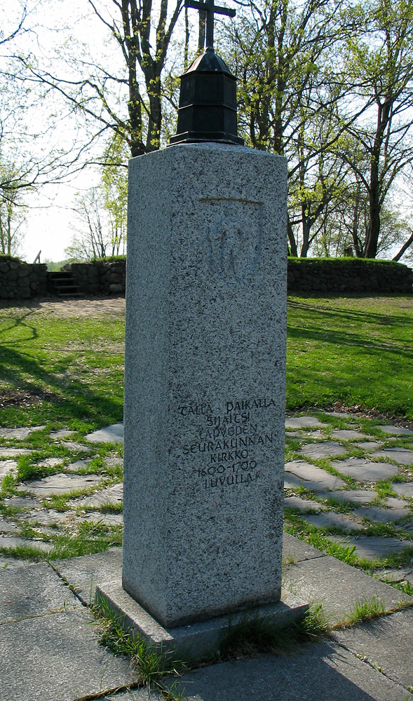 Memorial of old church of Lappee in Lappeenranta Fortification.